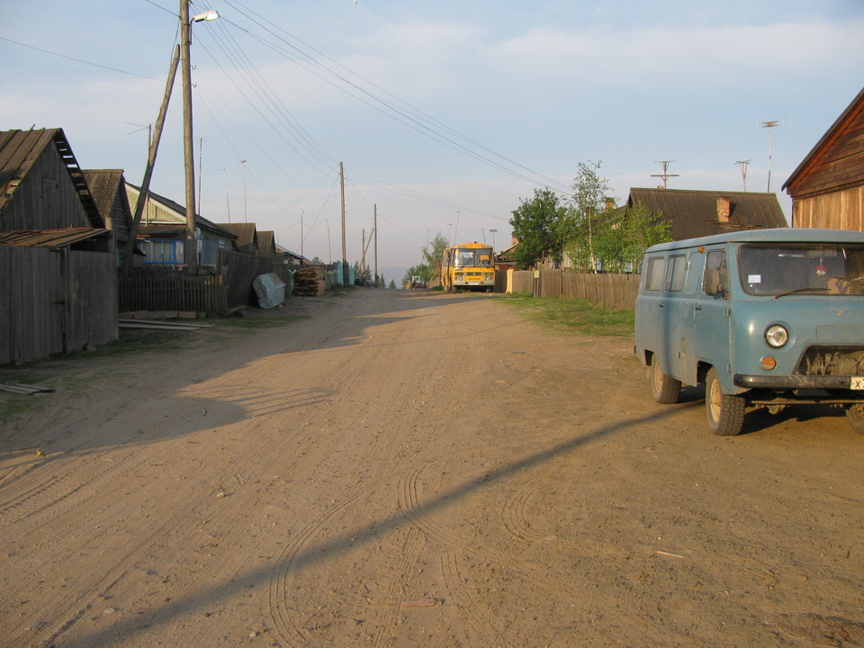 Yarki settlement in Boguchansky District, Krasnoyarsk Krai, Russia